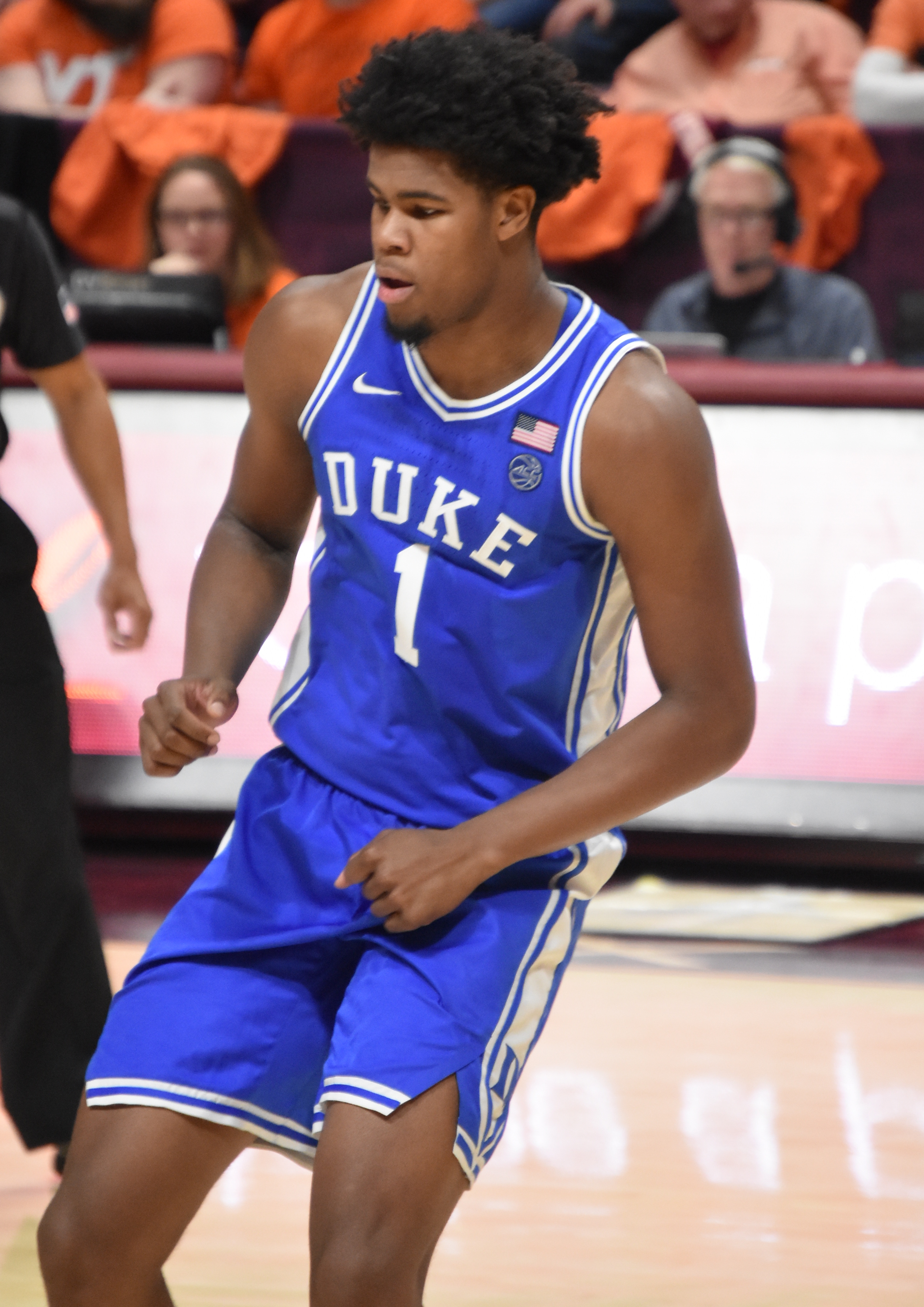 Vernon Carey, Jr. Sets a pick during the VT-Duke Game at Cassell Coliseum